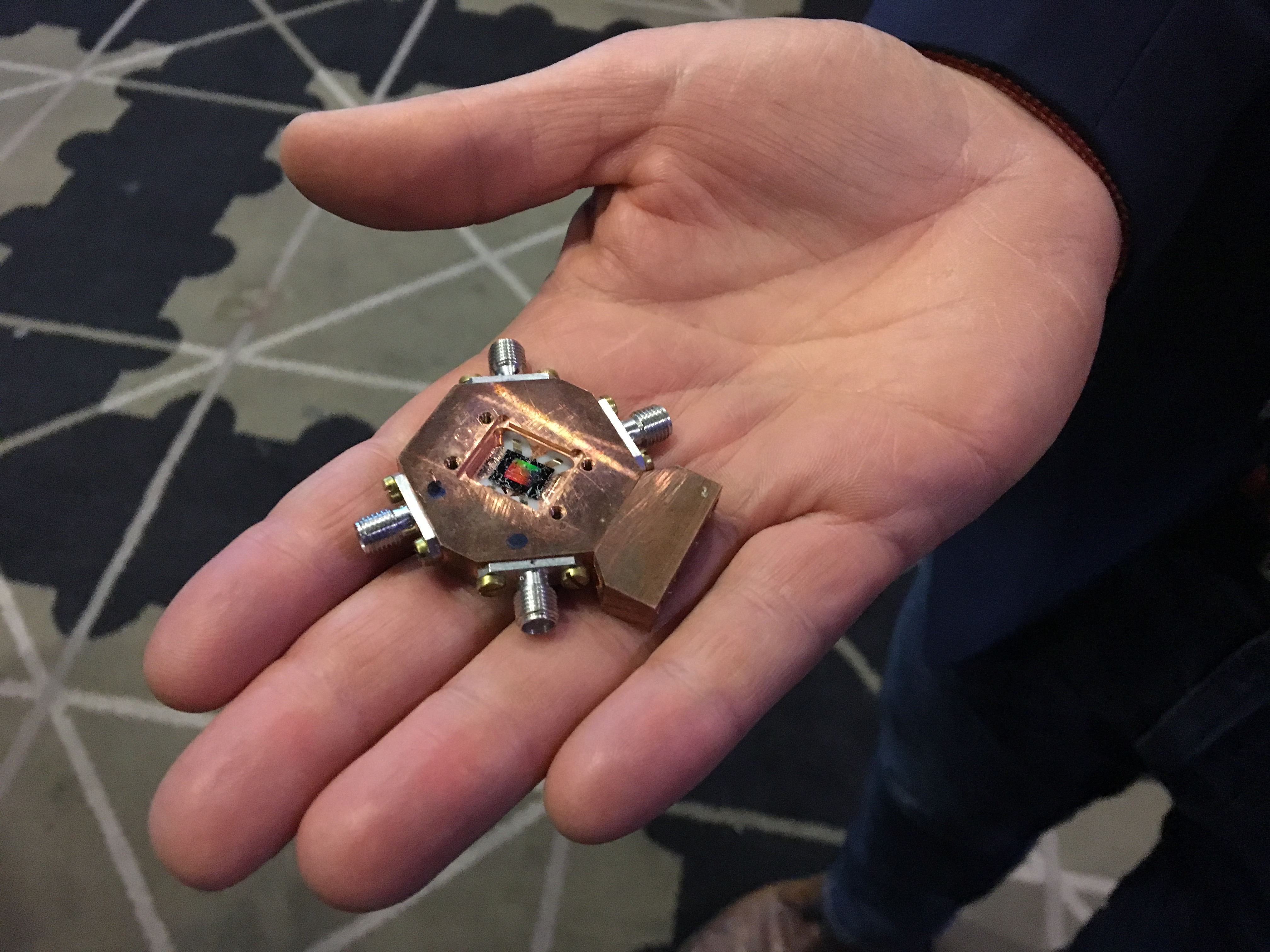 A quantum processor, for a quantum computer, with three quantum bits (qubits) and three read-out cavities, fabricated in May 2017 at the Nanofabrication Laboratory at Chalmers University of Technology.